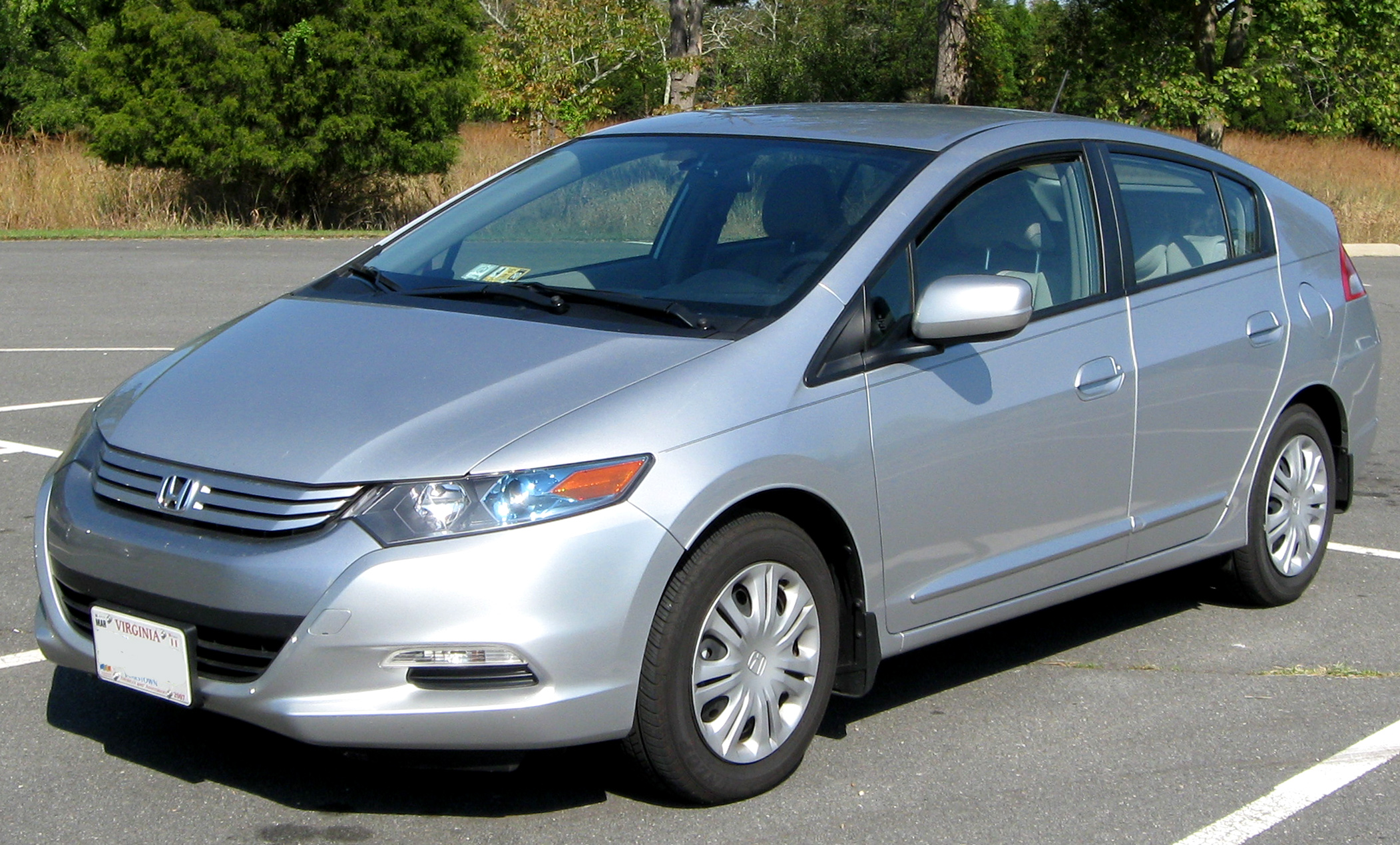 2010 Honda Insight photographed in Manassas, Virginia, USA.